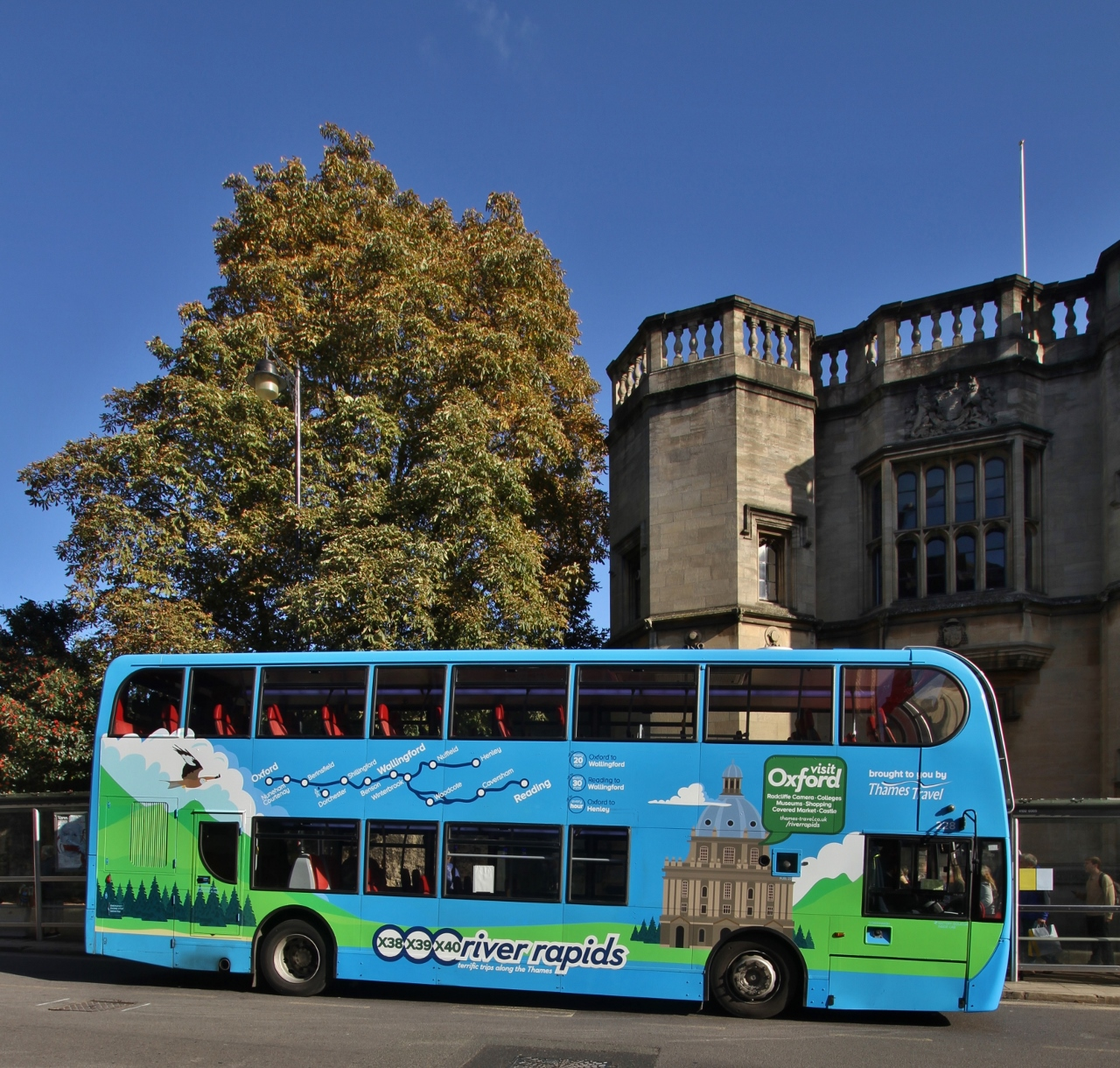 A Thames Travel bus on route X38 outside Christ Church in St Aldate's, Oxford. The bus is a Scania with an Alexander Dennis Enviro400 body, registration mark TF10 OXF, fleet number 228.